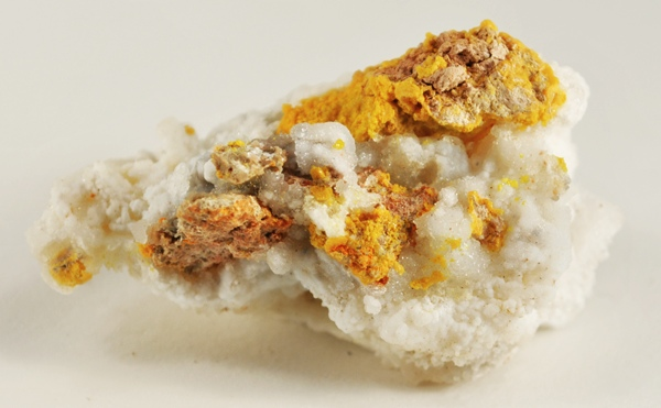 Kleinite, Calcite Locality: McDermitt Mine (Cordero Mine; Old Cordero Mine), Opalite District, Humboldt County, Nevada, USA (Locality at ) Size: 4.9 x 3.1 x 2.6 cm. A very rich and exceptional specimen of bright canary-yellow, botryoidal kleinite on starkly contrasting, snow-white calcite matrix from the McDermitt Mine of Nevada. Kleinite is a very rare mercury halide, known from only 3 localities worldwide.